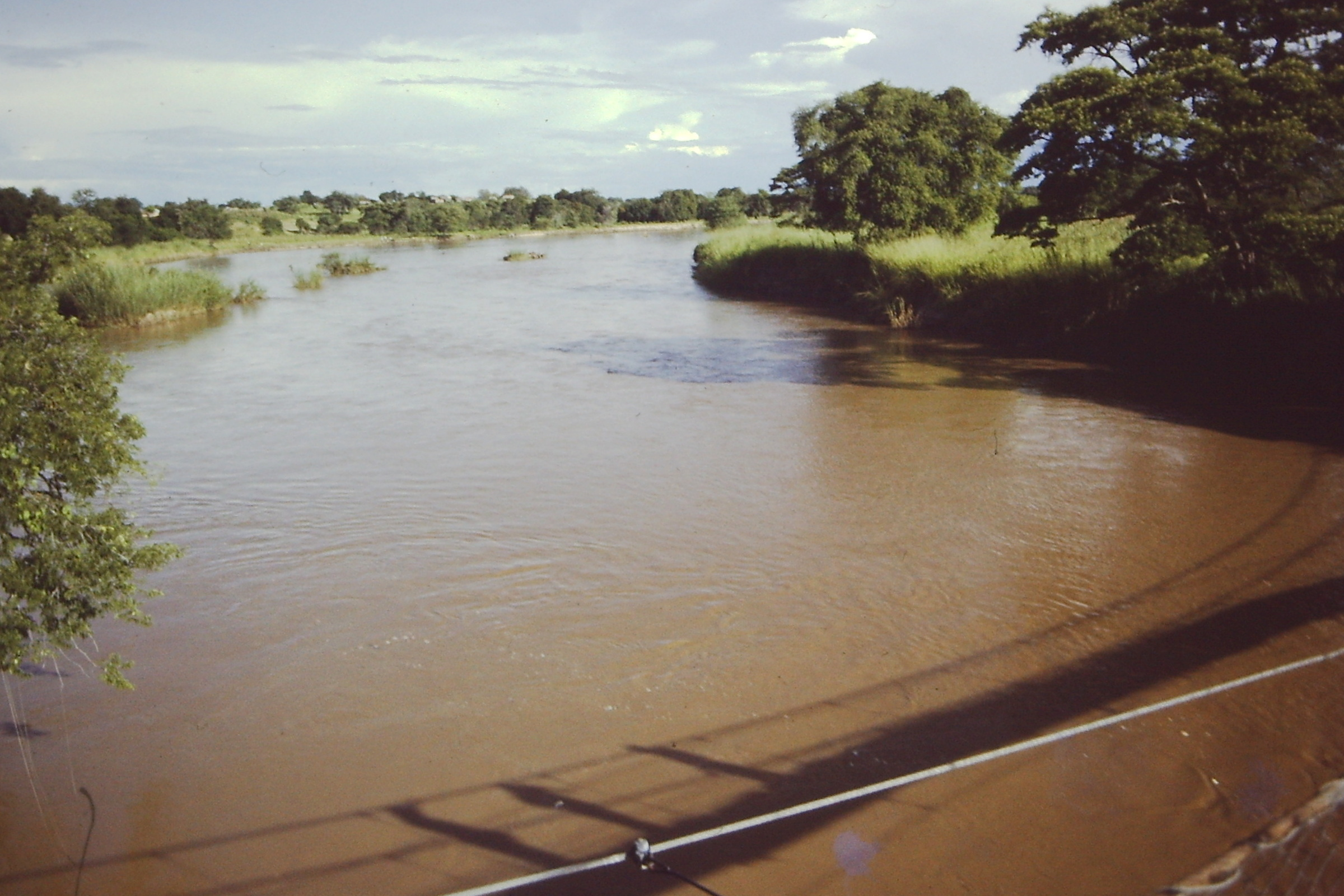 Momba river close to its mouth in lake Rukwa